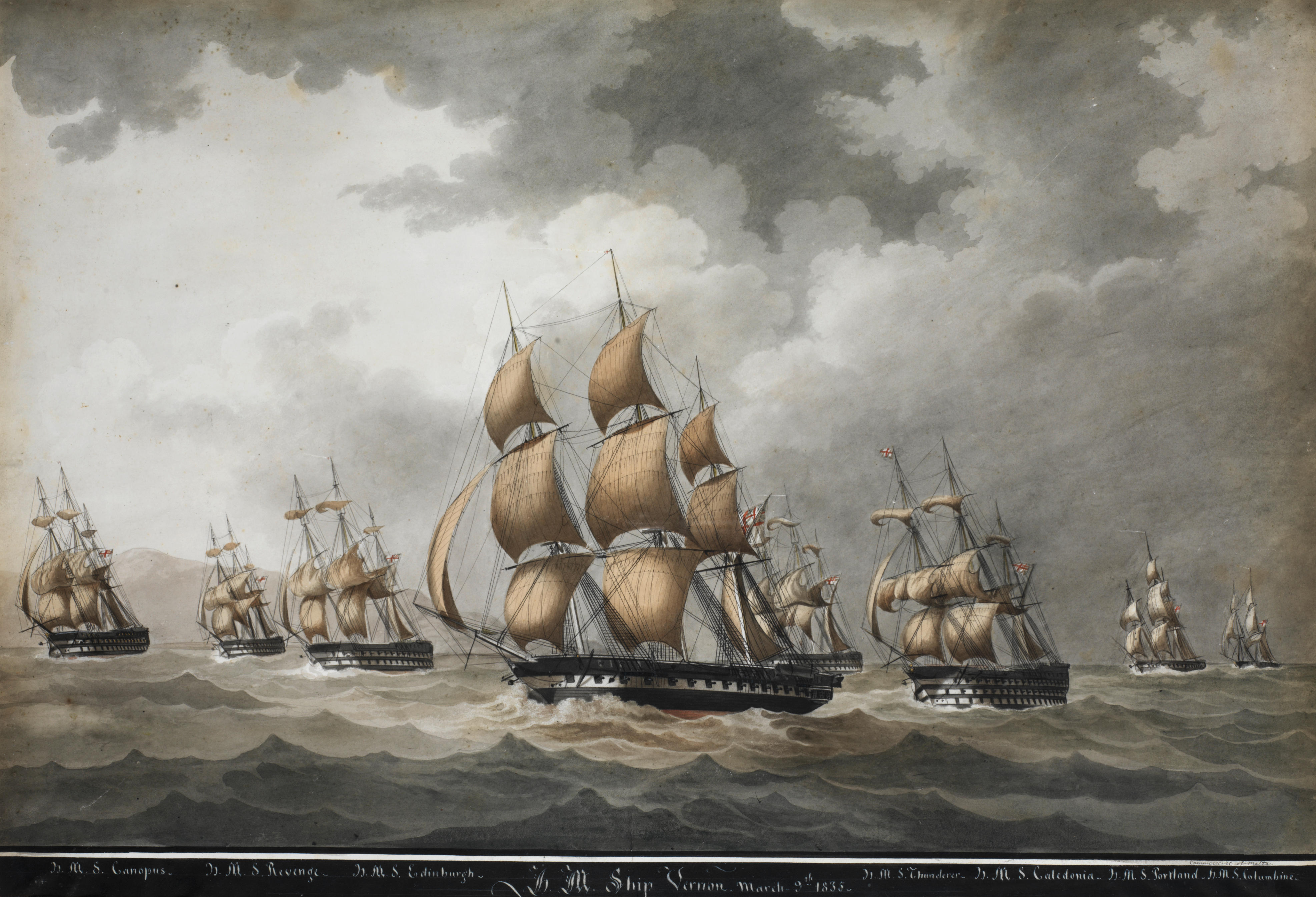 Seven warships proceding (sic) under sail, by Cammillieri Signed 'Cammillieri of Malta' (in white band lower right) Watercolour Inscribed in white on black band at bottom (L-R ) 'H.M.S. Canopus', 'H.M.S. Revenge', 'H.M.S. Edinburgh', 'H. M. Ship Vernon, March 9th 1835', 'H.M.S. Thunderer', 'H.M.S. Caledonia', 'H.M.S. Portland', 'H.M.S. Columbine' pen, ink, grey wash and watercolour heightened with white 43.2 x 67.3cm (17 x 26 1/2in).